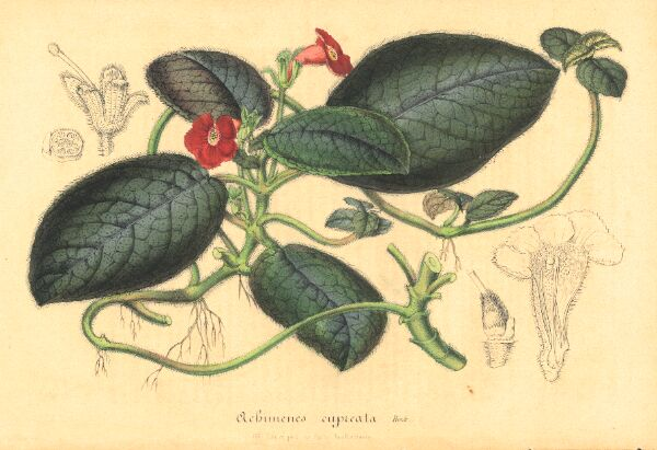 Image was produced in 1847 Source of image was This species is now known as Episcia cupreata